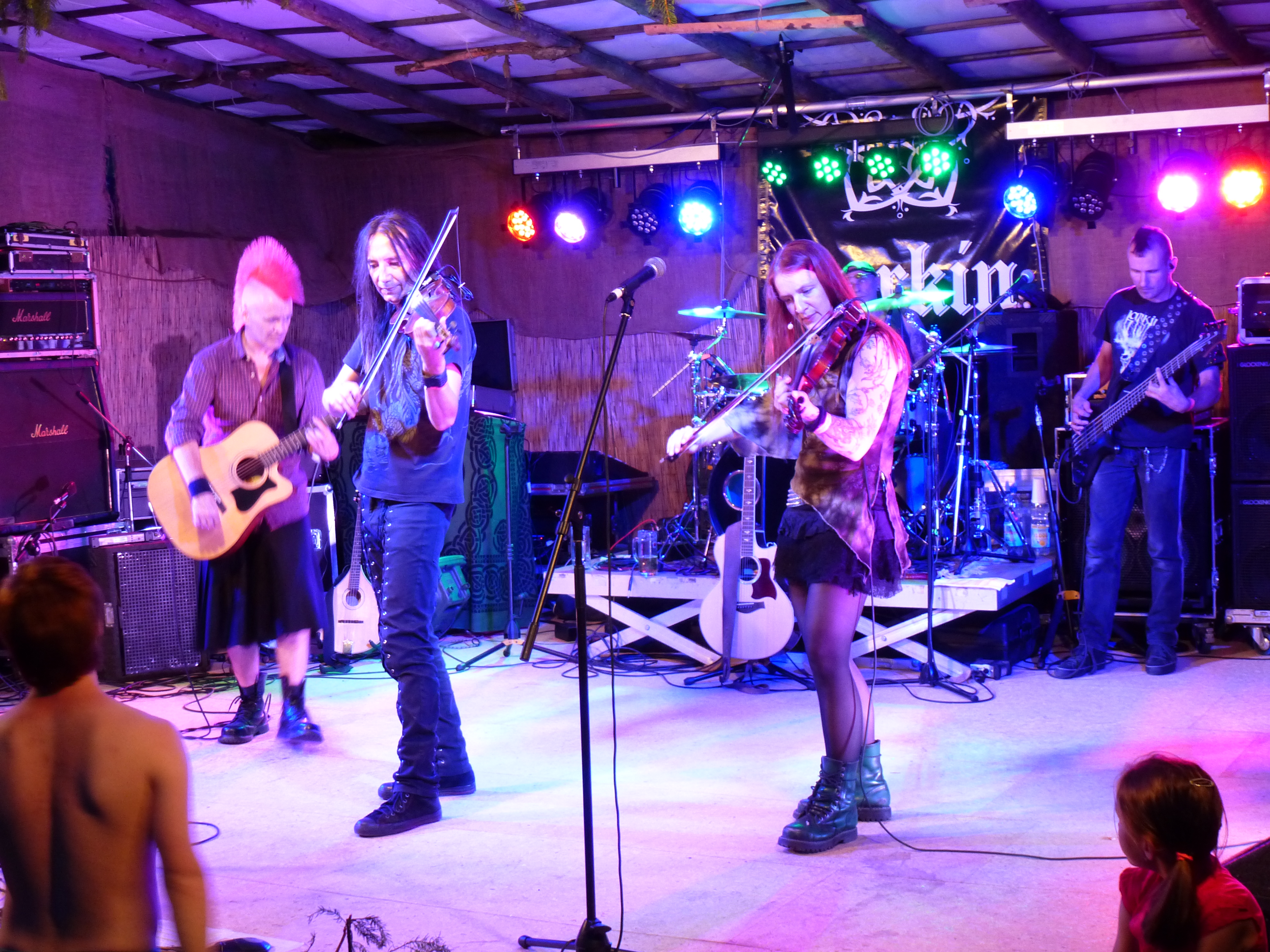 Larkin & Irish Beat Dance Company at the 25th Altburgfestival at the historic celts settlement Altburg / Hunsrueck mountains range, Rhineland-Palatinate, Germany